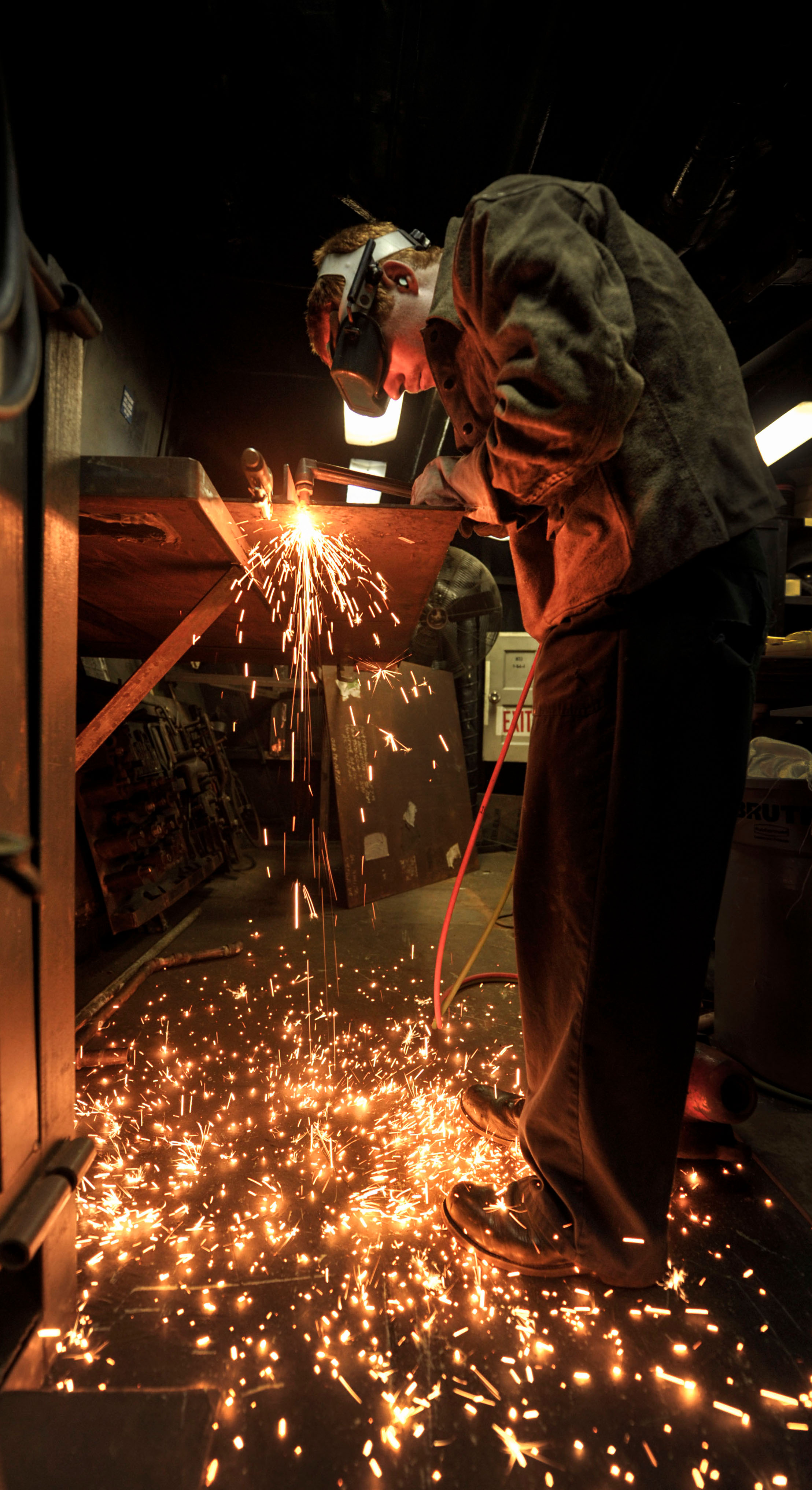 A U.S. Navy Hull Maintenance Technician 3rd Class Robert Frey fabricates a steel countertop aboard the aircraft carrier USS Nimitz (CVN 68) Aug. 20, 2013, while underway in the Gulf of Oman.